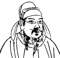 Emperor Zhongzong of Tang.